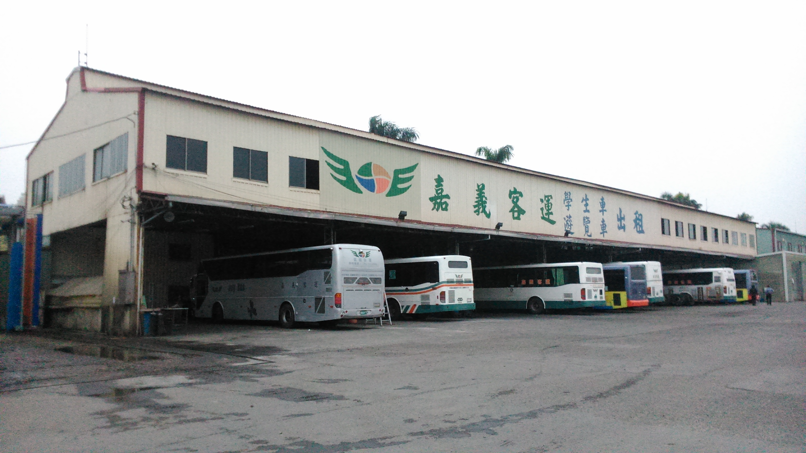 Chiayi Bus Company, Ltd. 中文（台灣）: 嘉義客運總公司，位於臺灣嘉義市東區忠孝一街1號。